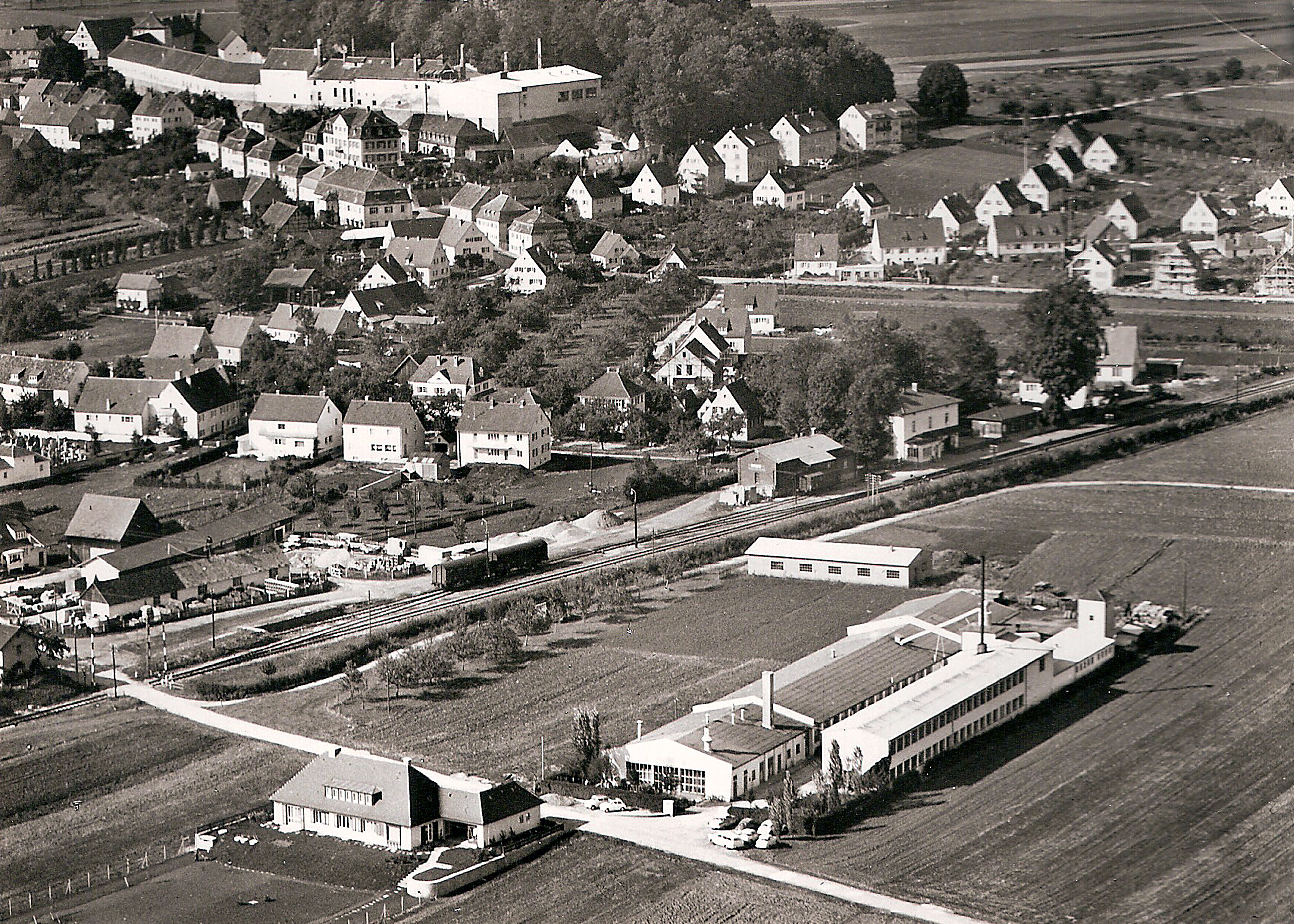 Wallerstein around 1961